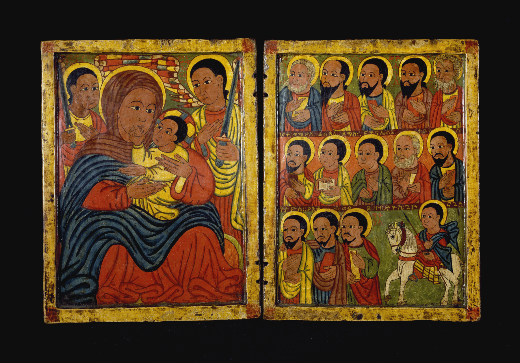 The Christ Child touches his mother's chin with a gesture of affection that was probably inspired by 15th-century Italian paintings then greatly admired at the Ethiopian royal court. Victorious saints on horseback had great appeal for the upper classes of Ethiopia, where noblemen were trained in horsemanship and combat. The artist is most likely a follower of Fre Seyon, the celebrated 15th-century painter who left only one signed work.